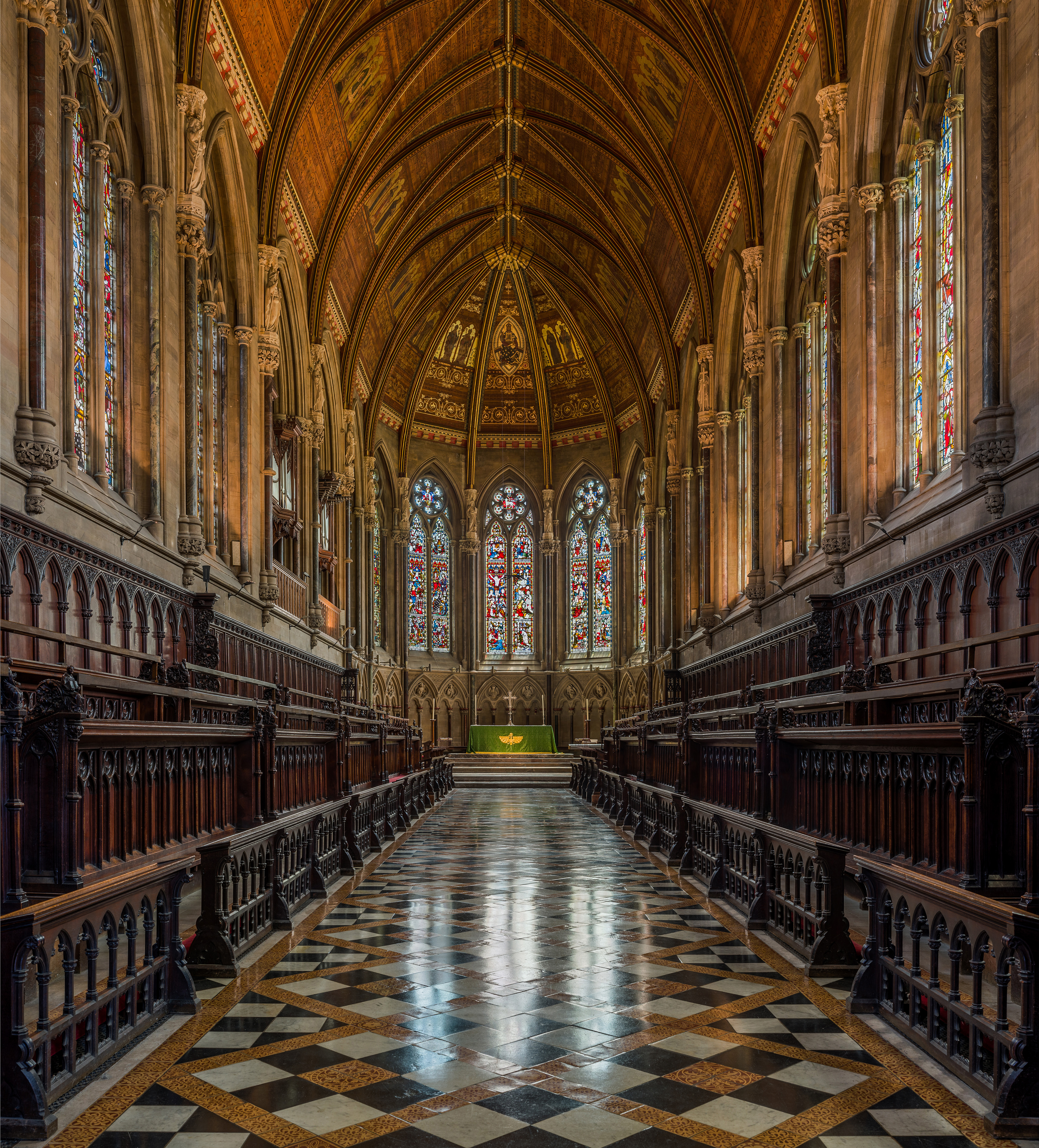 The chapel of St John's College, Cambridge, England.